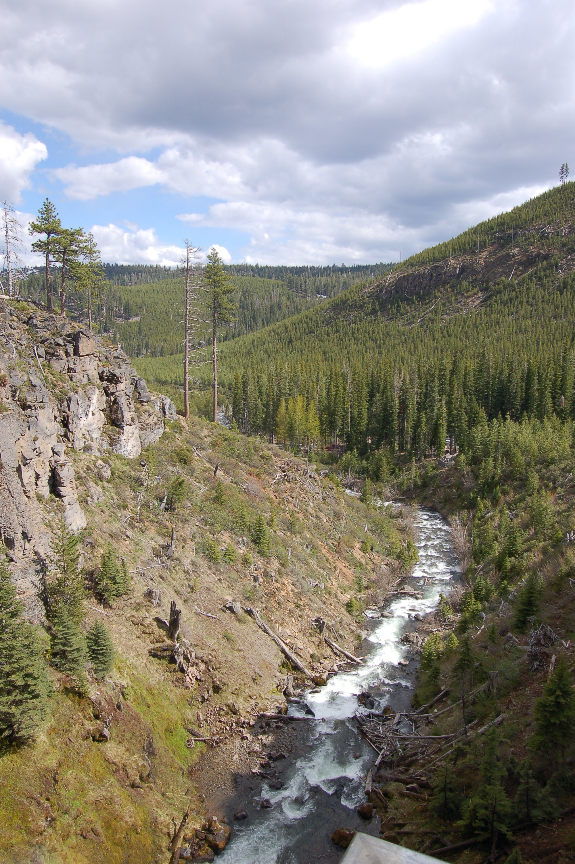 Tumalo Creek just below Tumalo Falls in Deschutes County, Oregon, United States